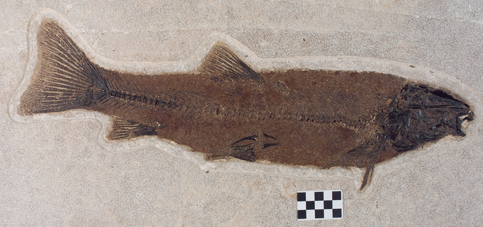 Full-size (53-cm long) adult specimen of Notogoneus osculus Cope, about 13% longer than the tracemaker interpreted for the trace fossil FOBU-12718; scale in centimeters. Specimen is in Fossil Butte National Monument collection; photograph by Arvid Aase.